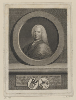 [Bildindex der Kunst und Architektur]